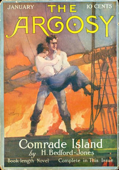 The Argosy magazine, January 1916